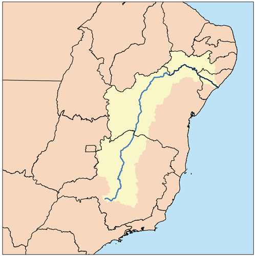 This is a map of Rio São Francisco Watershed. I, Karl Musser, created it based on USGS data.